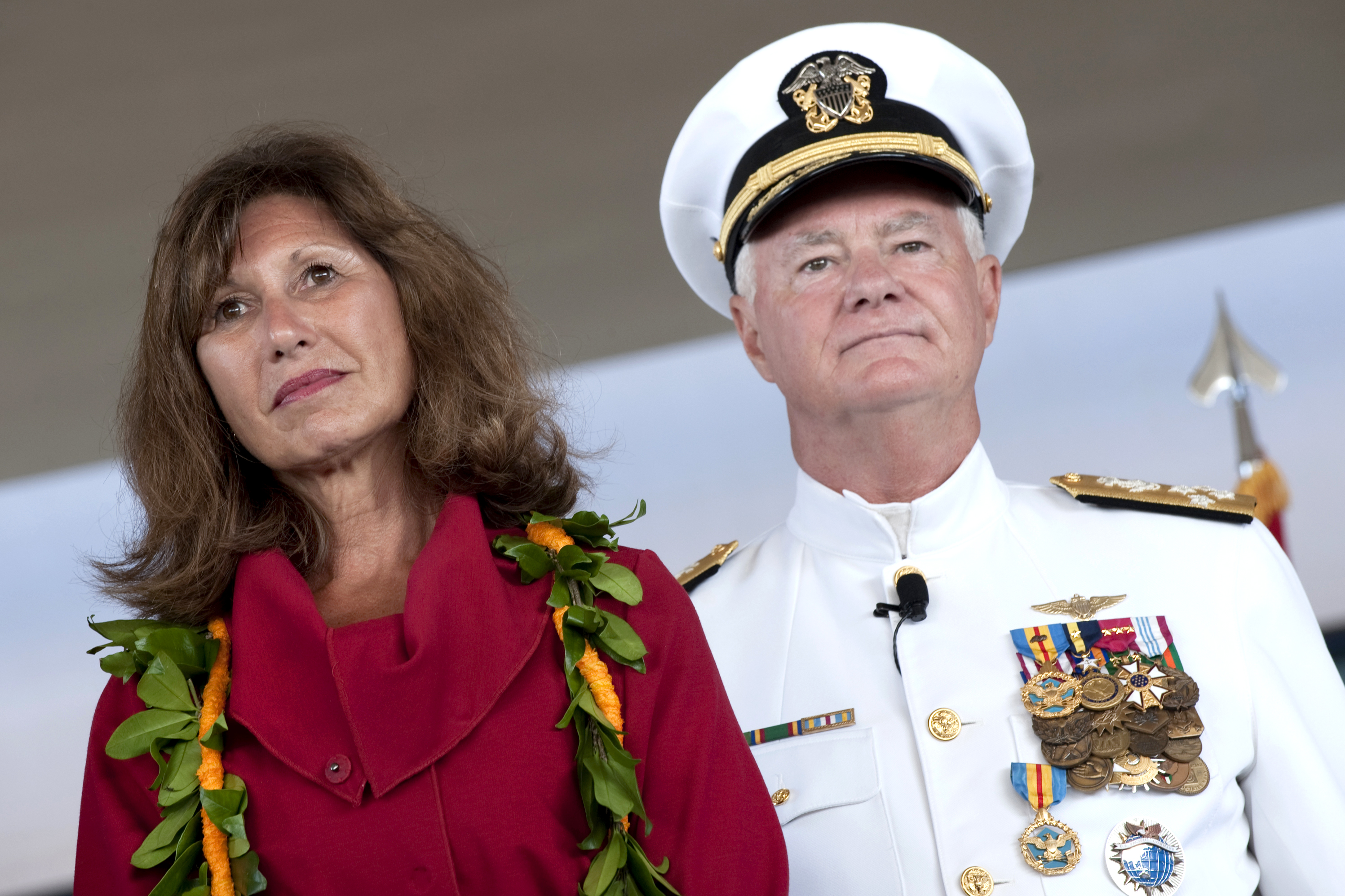 U.S. Navy Adm. TImothy Keating, commander, U.S. Pacific Command and his wife Wandalee Keating listen to the Distinguished Public Service Award citation presented to Mrs. Keating at the U.S. Pacific Command change-of-command ceremony, Camp Smith, Hawaii, Oct. 19, 2009.